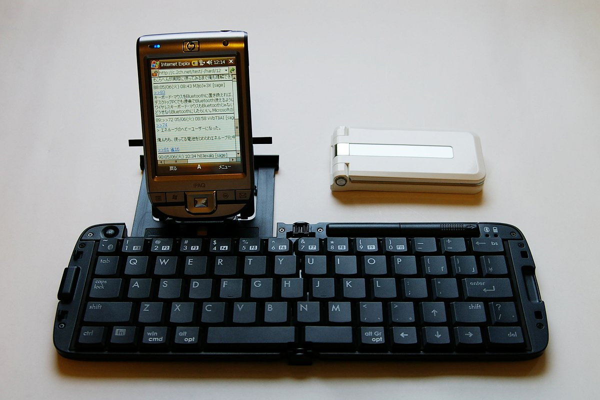 HP iPAQ 112, Bluetooth Keyboard RBK-2000BT II, Mobile Phone 820P with Bluetooth DUN modem